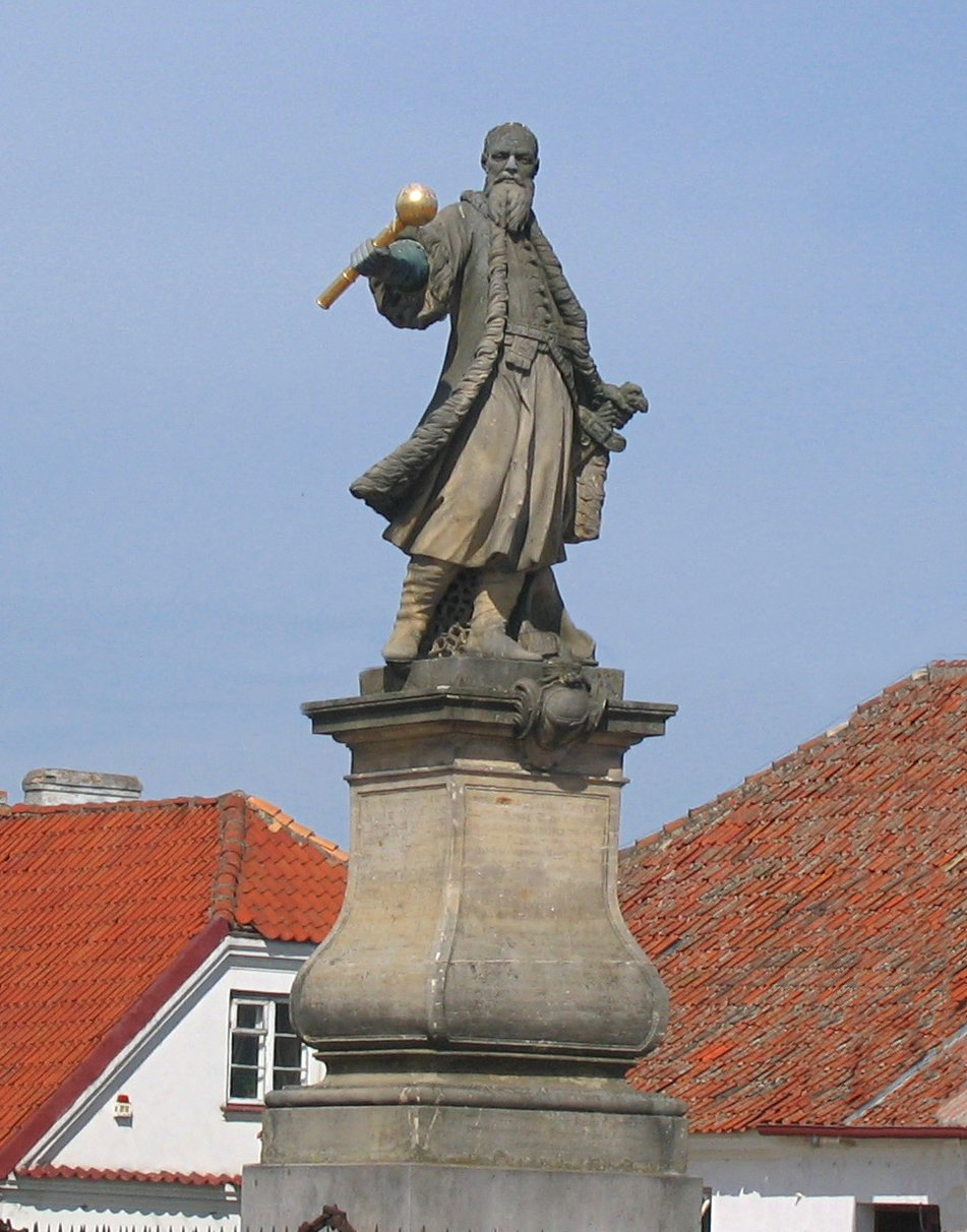 Stefan Czarniecki Monument in Tykocin